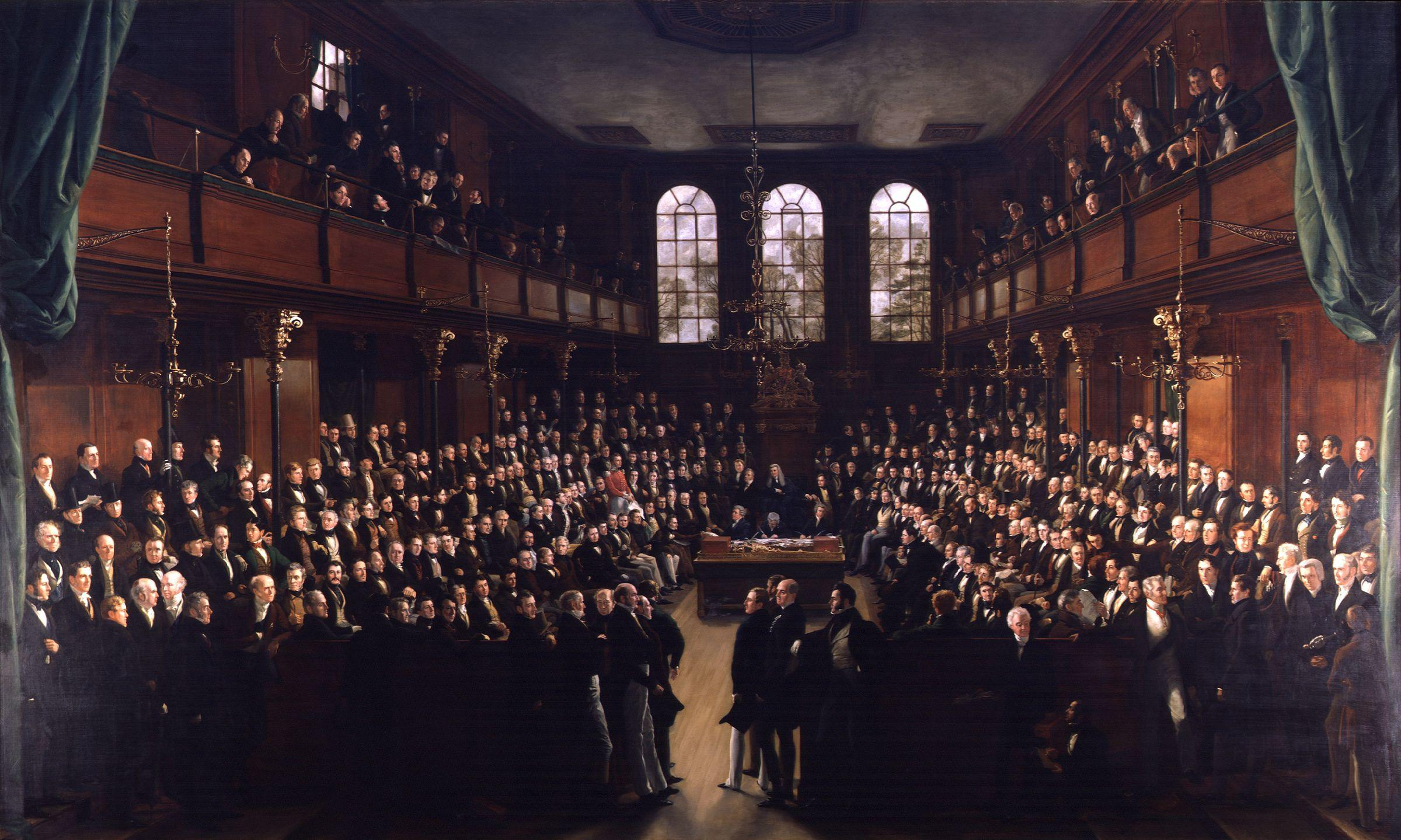 The House of Commons, 1833, by Sir George Hayter (died 1871), given to the National Portrait Gallery, London in 1858. Also known as "The Meeting of the First Reformed Parliament". All images in this batch have been confirmed as author died before 1939 according to the official death date listed by the NPG.